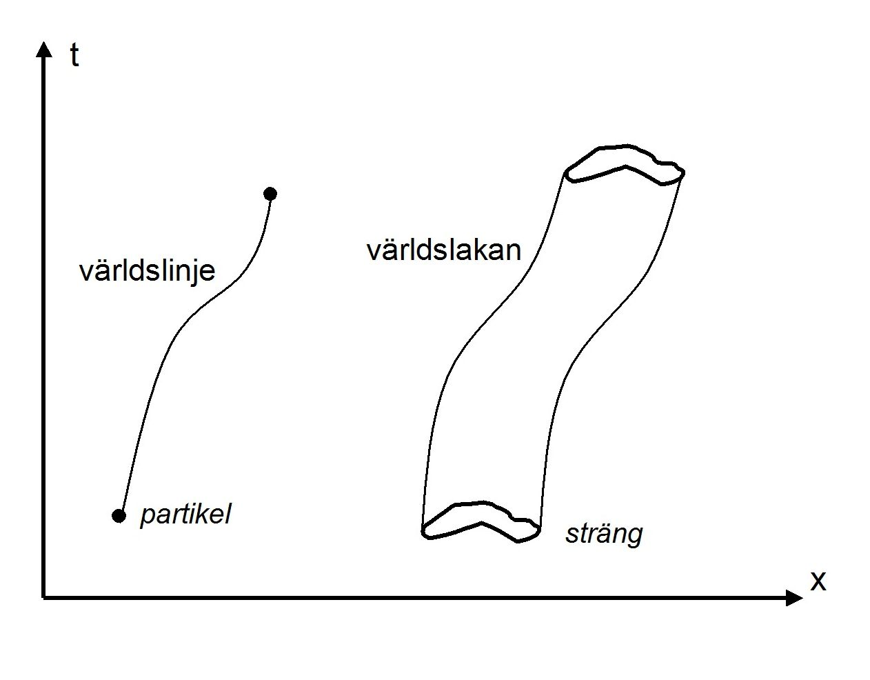 A comparison between a point particle and a string moving in time and space.